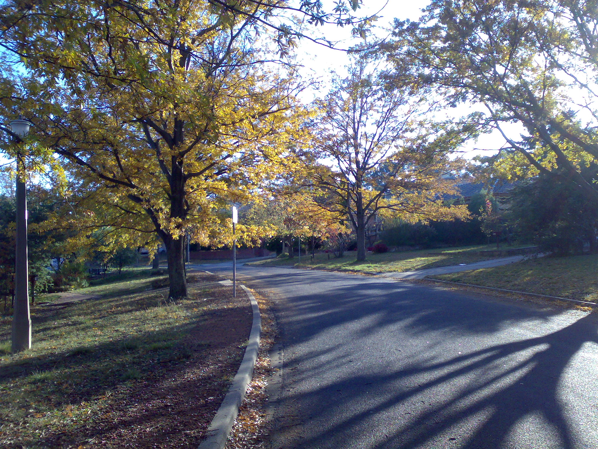 A view of Getting Crescent, Campbell in morning sunlight.